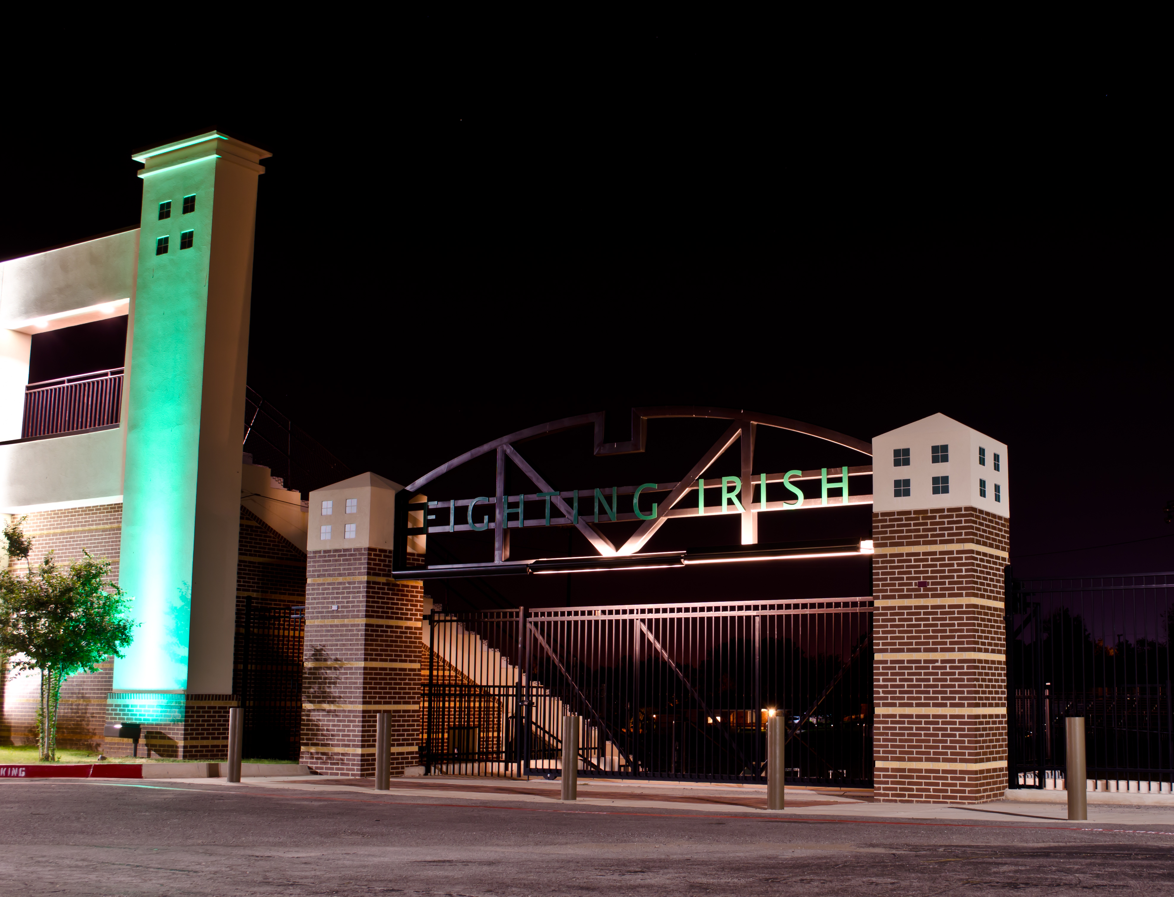 New facade for the stadium